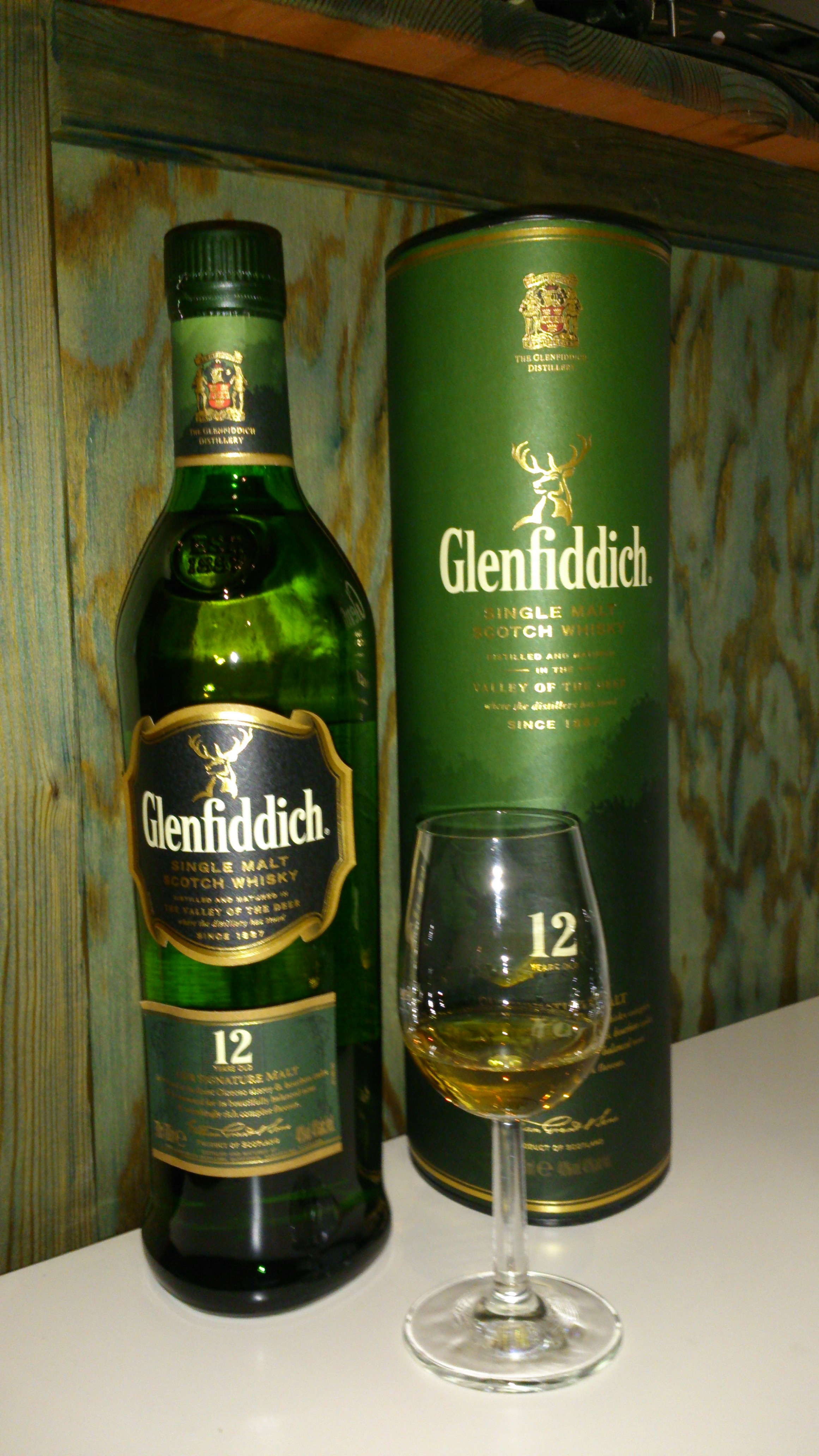 Glenfiddich 12yo Standart 2013